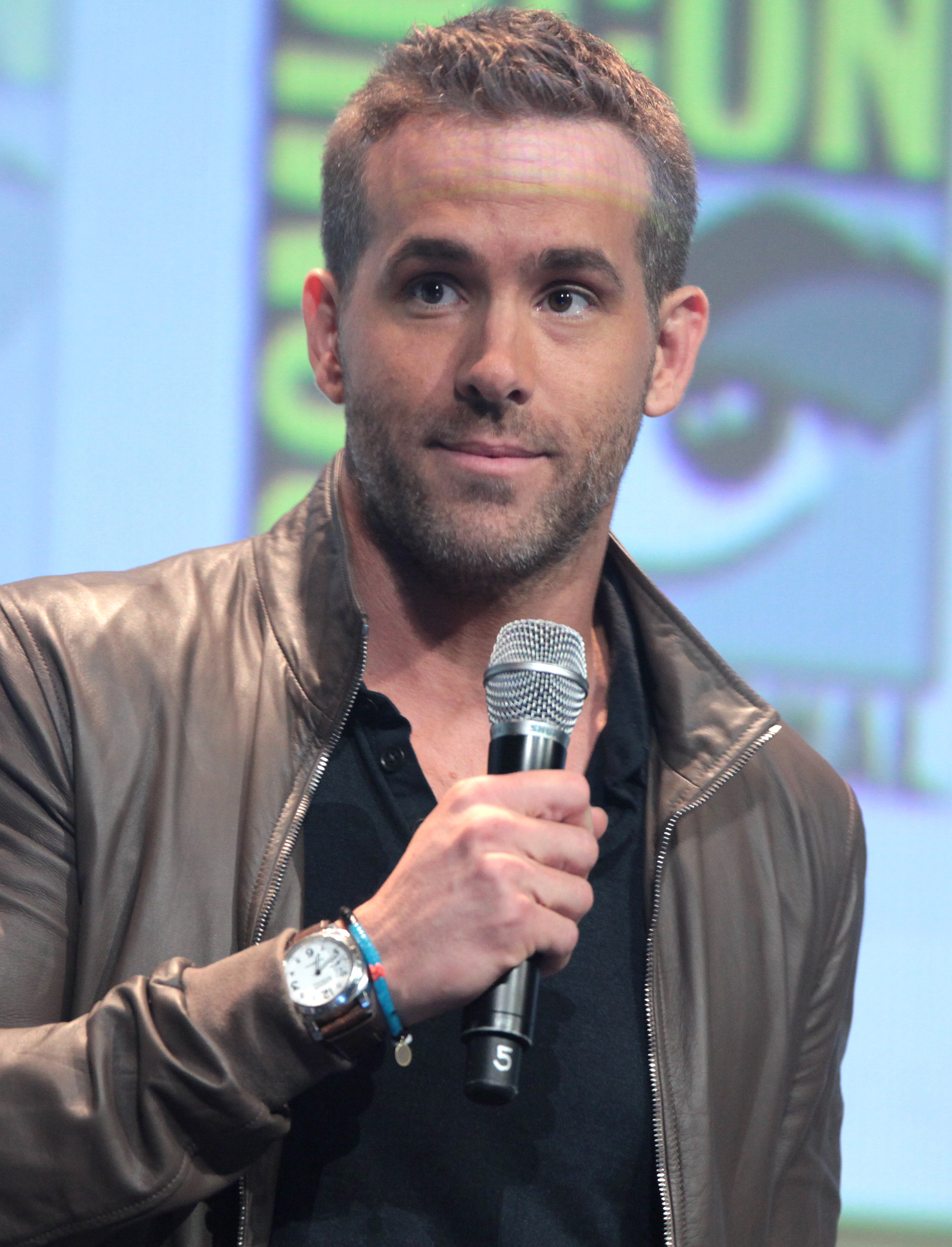 Ryan Reynolds speaking at the 2015 San Diego Comic Con International, for "Deadpool", at the San Diego Convention Center in San Diego, California.